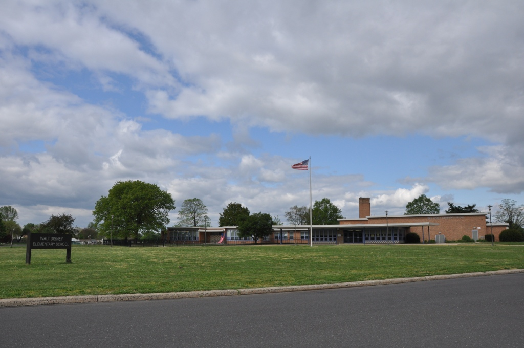 The Walt Disney Elementary School in the Levittown section of Tullytown, Pennsylvania.